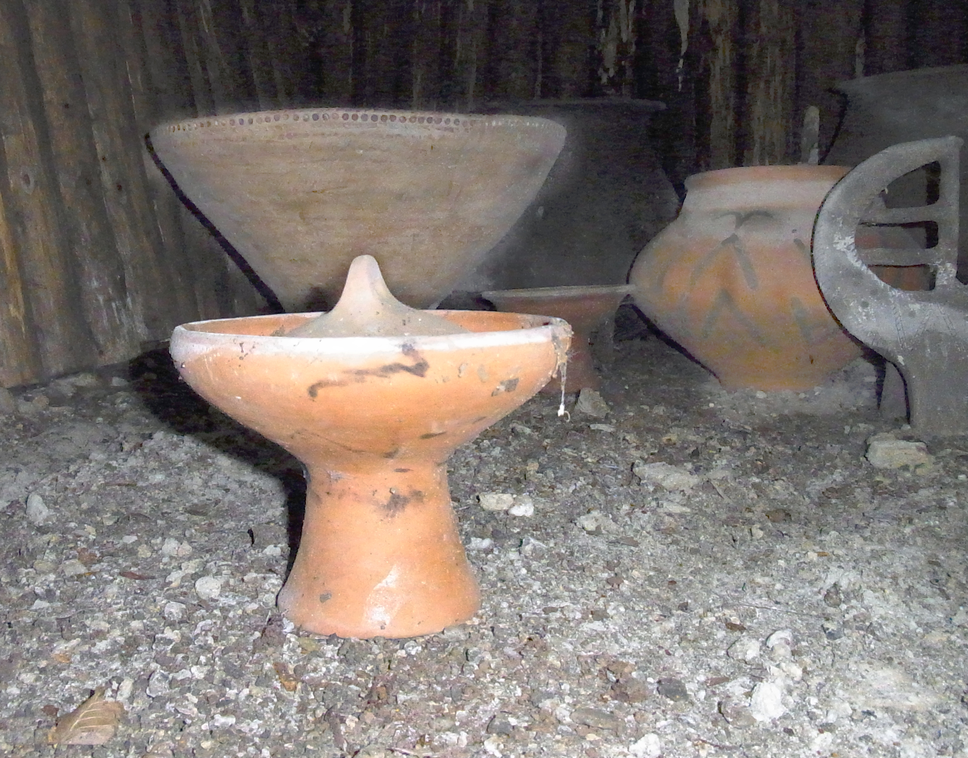 Sopron-Várhely, Early Iron Age Tumuli, Hungary